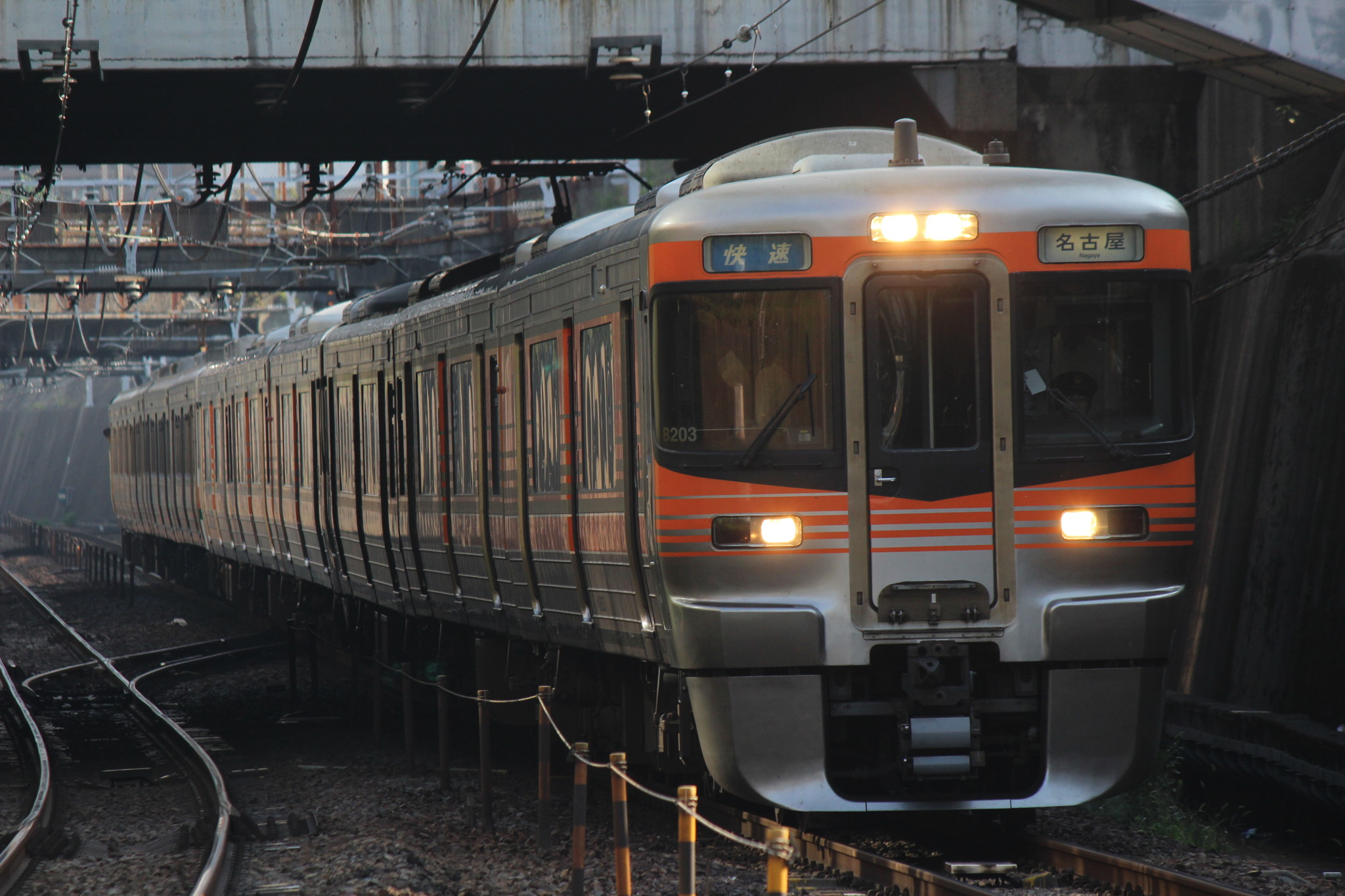 Two JR Central 313 series EMUs and a 211 series EMU led by 3-car 313-8000 series set B203